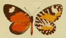 Druce,H. H. 1910 Descriptions of new Lycaenidae and Hesperiidae from Tropical West Africa Proc. zool. Soc. Lond. 1910 (1) : 356-378 Plate 33 2. Telipna transverstigna, sp. n male accepted name Telipna transverstigna Druce, 1910